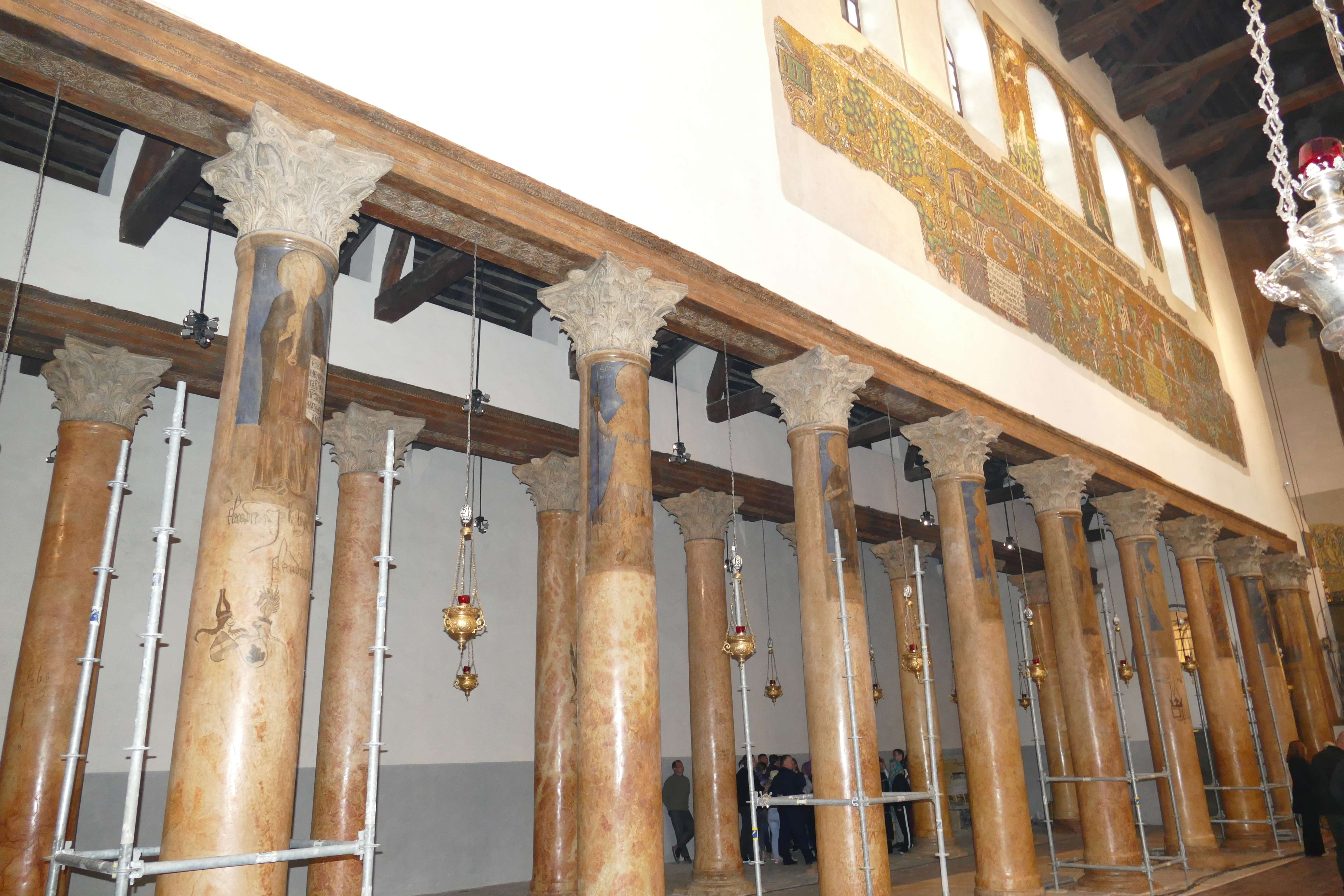 Church of the Nativity, Bethlehem, West Bank.